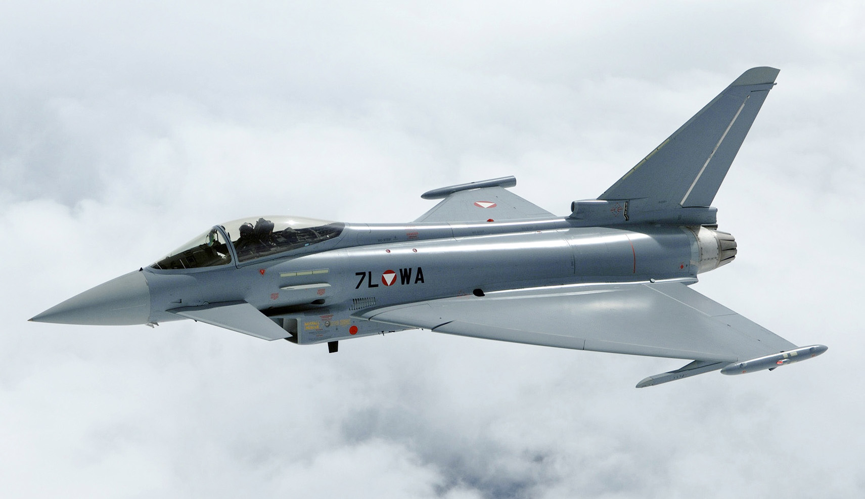 The first Eurofighter Typhoon to be delivered to the Austrian Air Force arrives at Hinterstoisser Air Base in Zeltweg, Austria on 12 July 2007. Photo: Bundesheer (BMLVS) / Markus Zinner